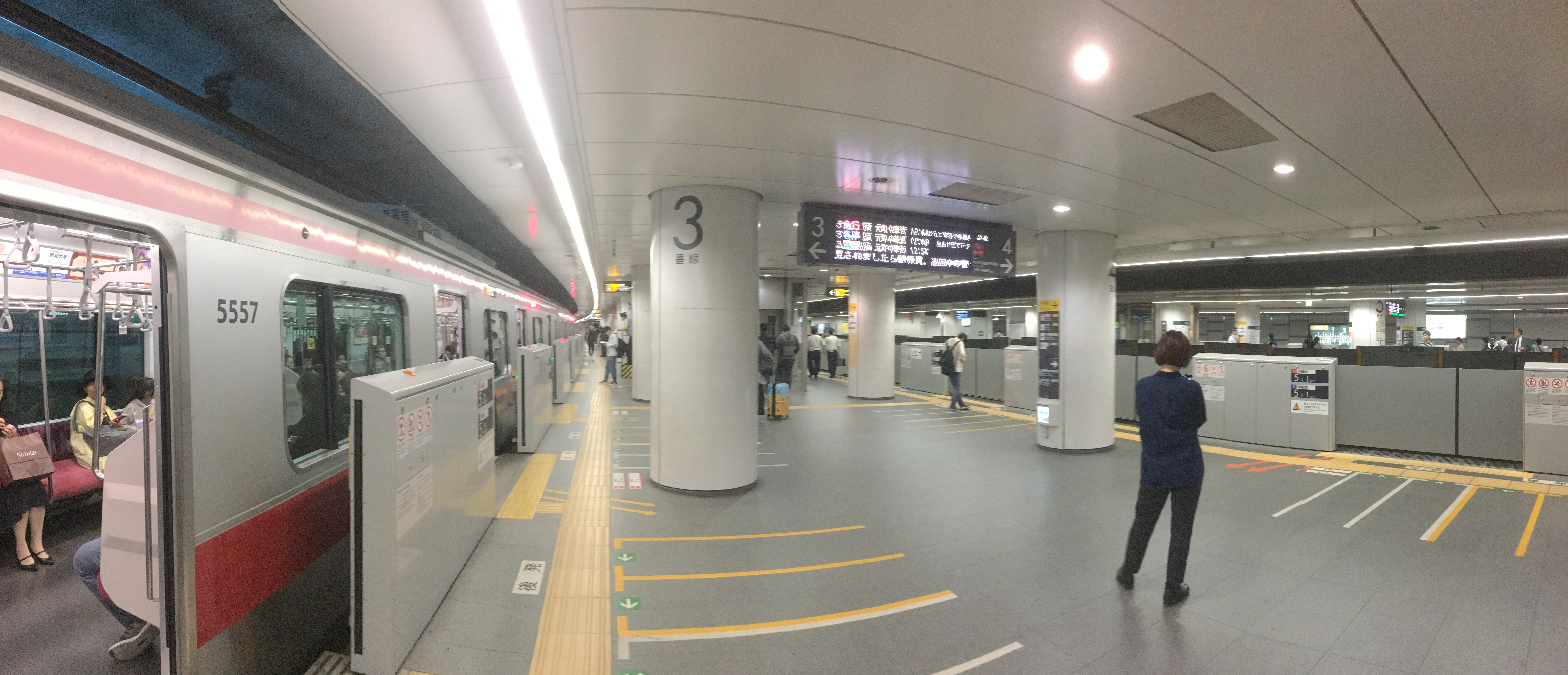 副都心線、渋谷駅のホーム (Fukutoshin Line,Shibuya Station platforms)